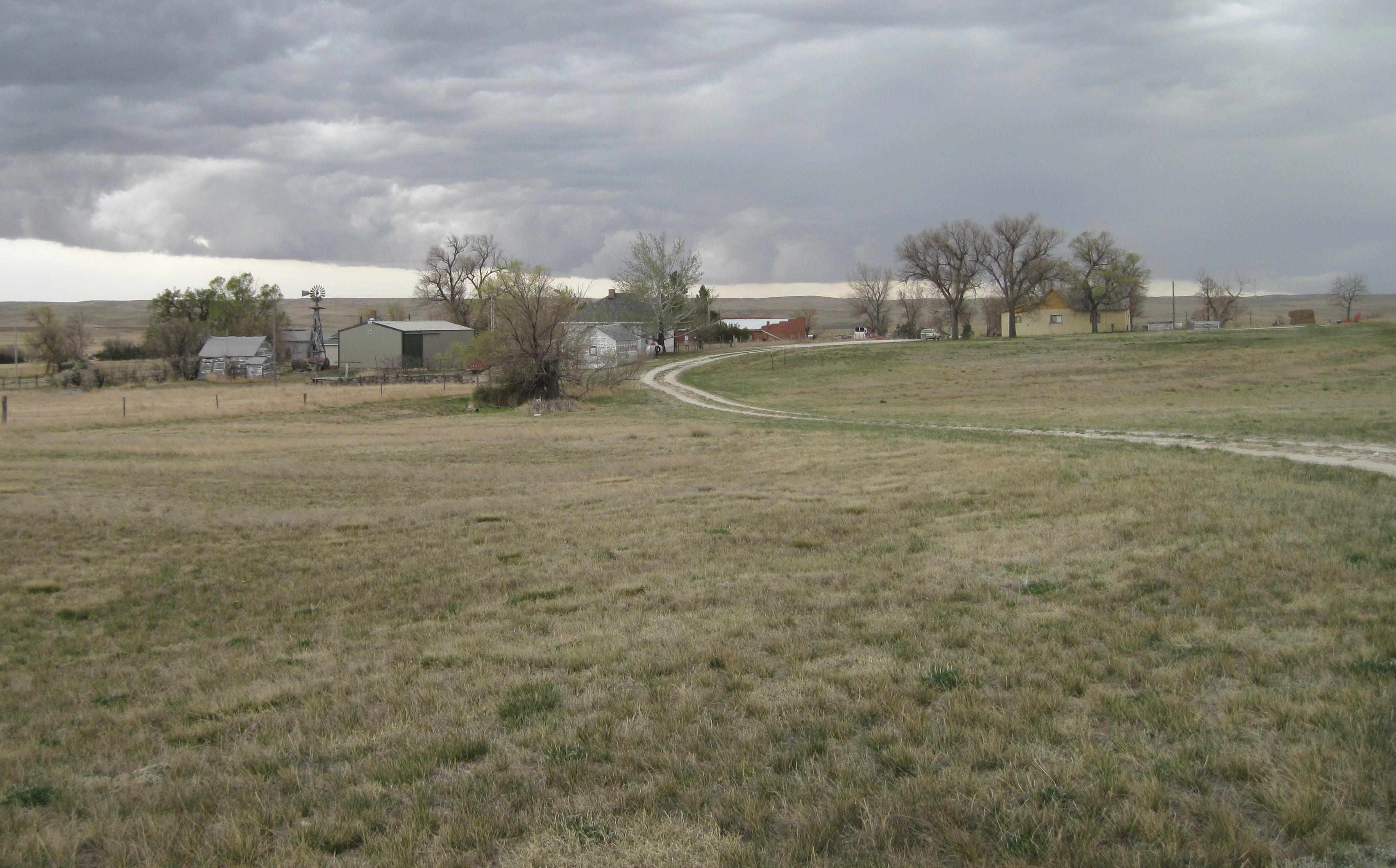 South-facing shot of Marsland, Nebraska from the Marsland School.